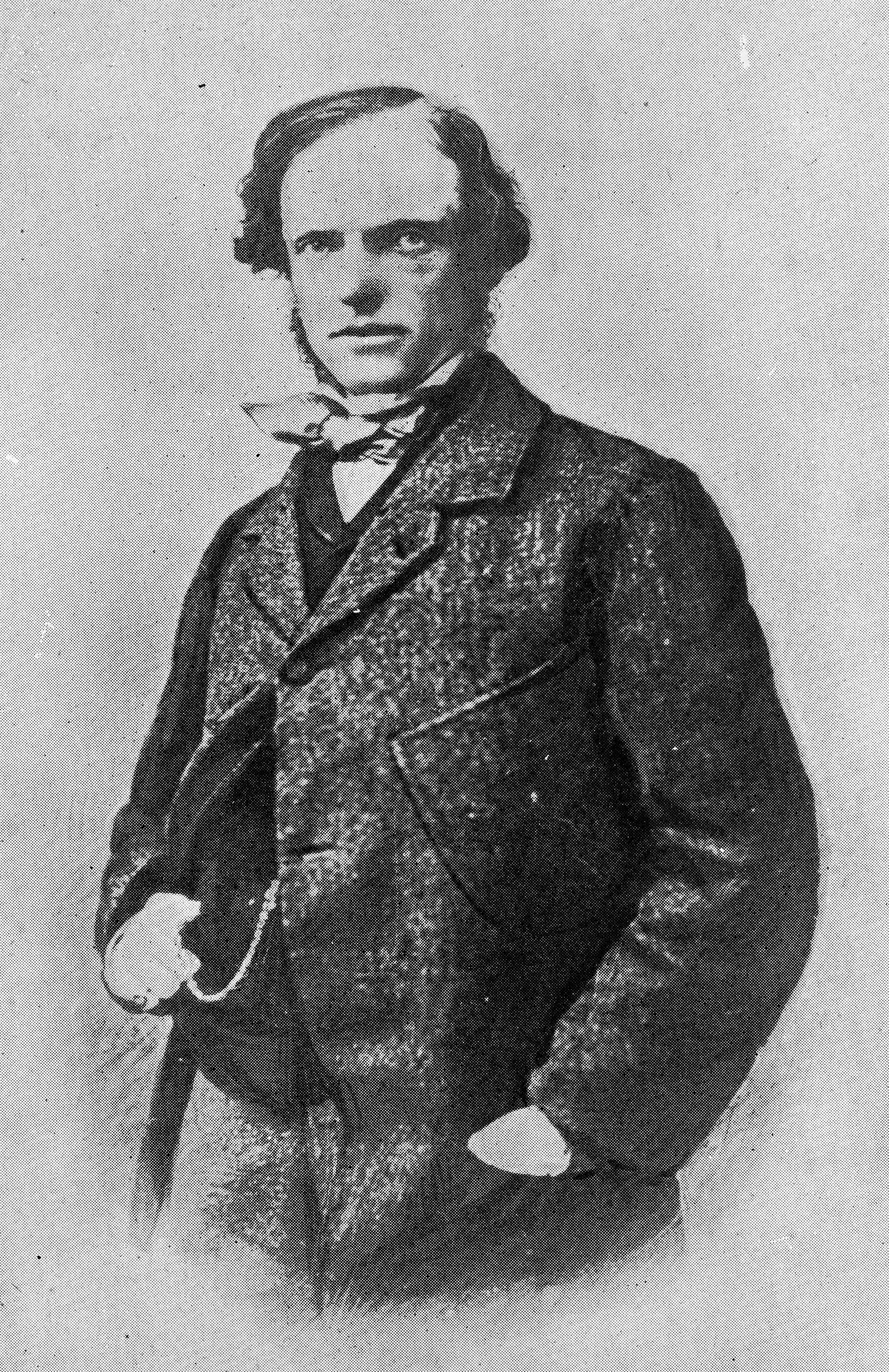 Portrait of John Robert Godley.